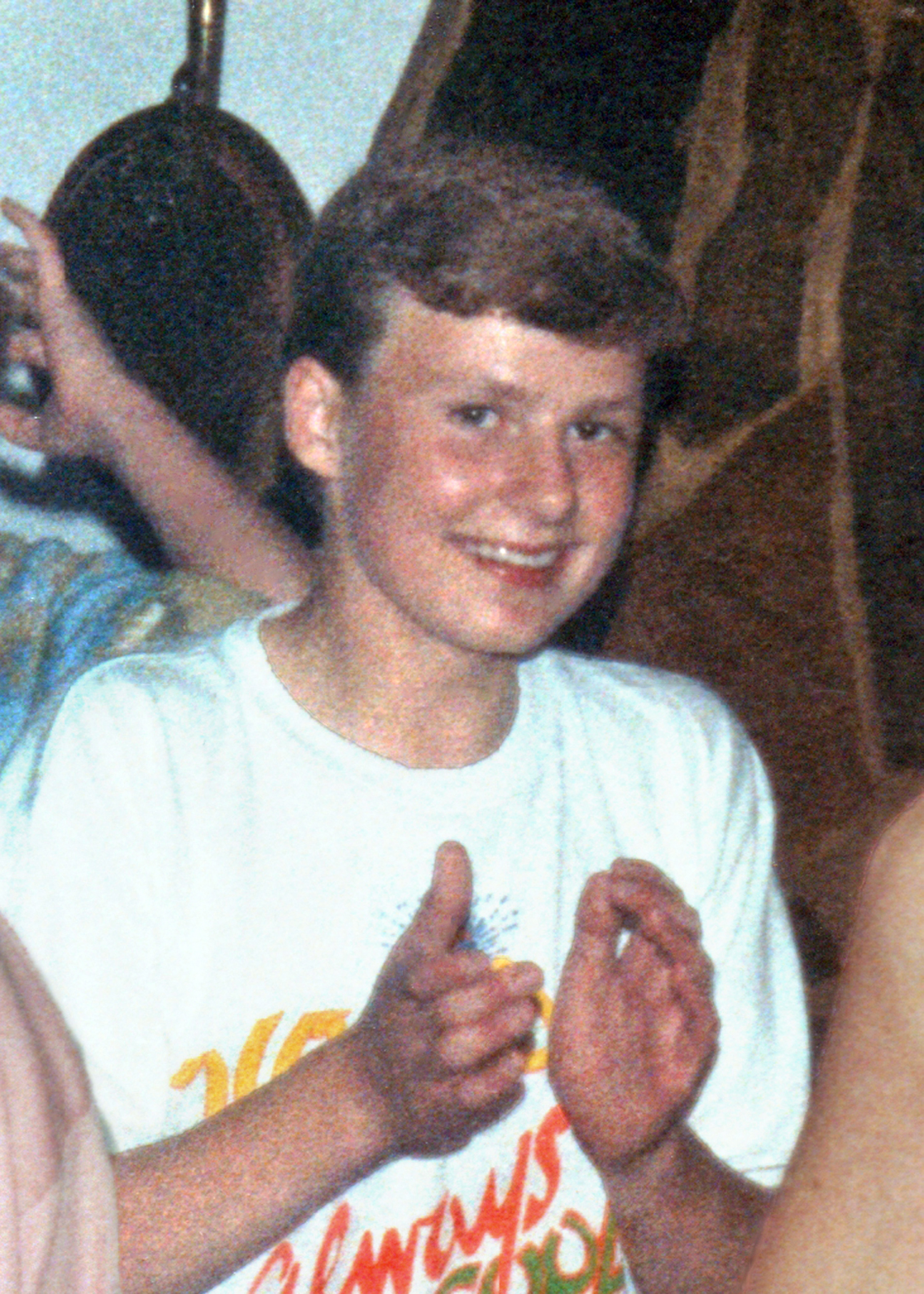 At party, 1987